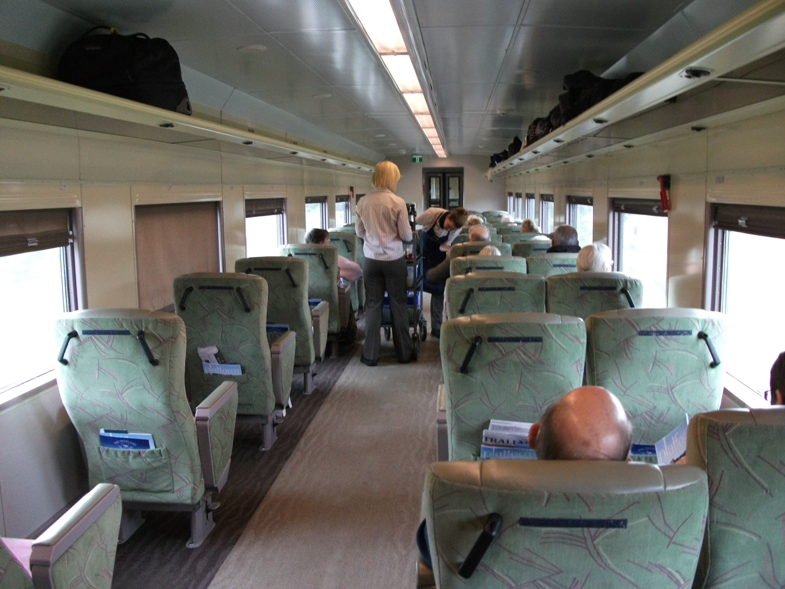 Tea is served in a Red Premium carriage aboard The Overland, May 2011.